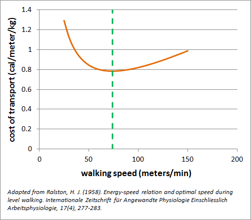 Adapted from Ralston H. J. (1958)